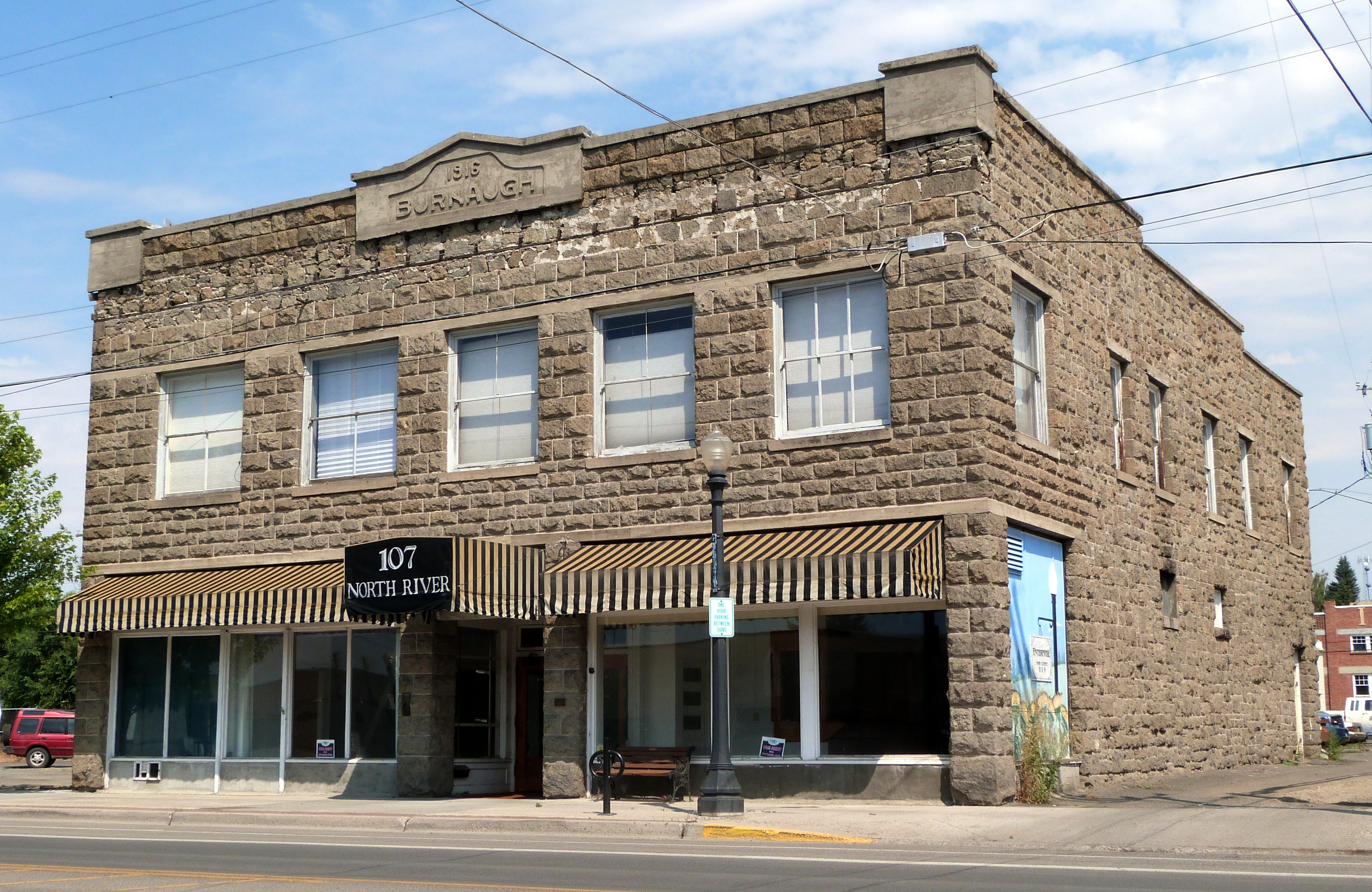 The historic Burnaugh Building (built 1916), located at 107 North River Street in Enterprise, Oregon, United States, is listed on the US National Register of Historic Places.